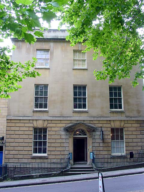 Georgian House Museum - This was originally home to John Pinney, a West India merchant, and the museum is set up to look as it was in his day. One display in the house explains how proceeds from commerial trading and the transatlantic slave trade have shaped Bristol as it is today.